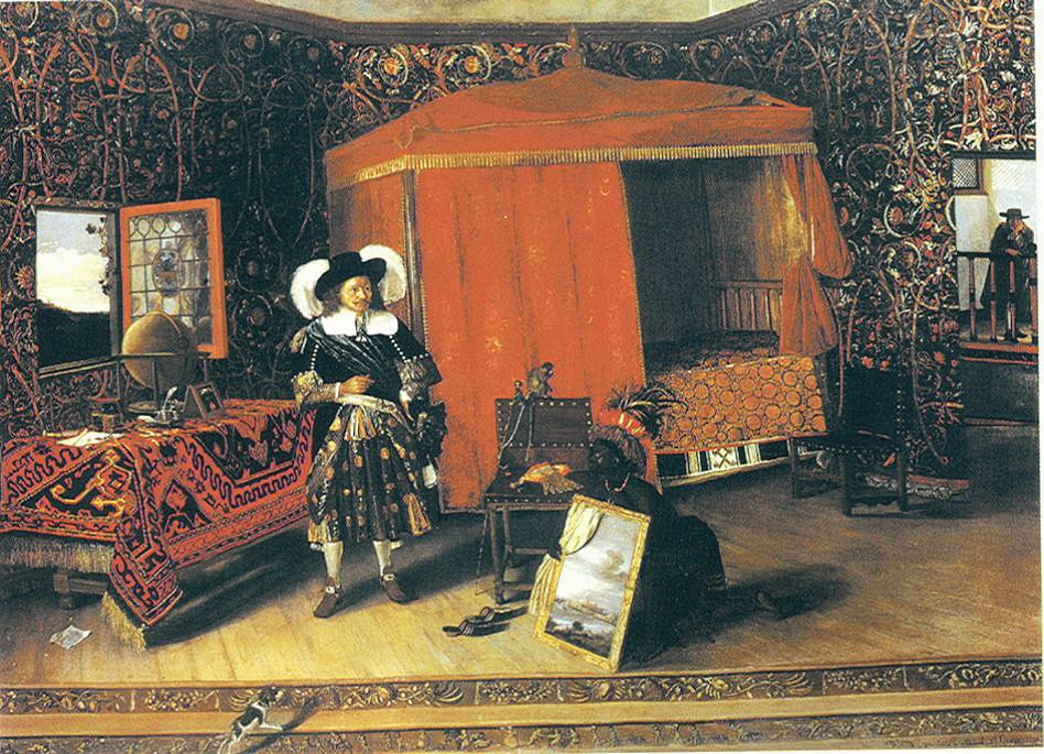 Painting "Dirck Dircksz Wilre in Elmina" (Gold Coast/Ghana) (1669) by painter Pieter de Wit (1646-16XX). Person depicted on the right is most probably Willem Godschalck van Focquenbroch (1640-1670). Painting sold at auction of Sotheby's NY, 6 July 1994